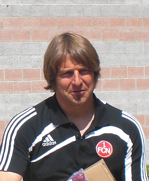 Michael Oenning, football coach of German side 1. FC Nürnberg, before 2009/10 season